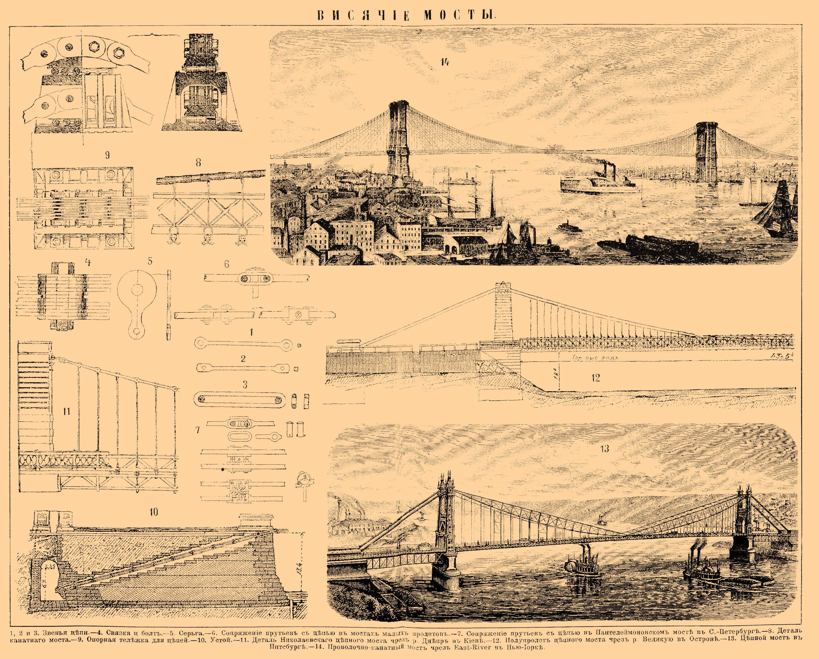 Illustration from Brockhaus and Efron Encyclopedic Dictionary (1890—1907)